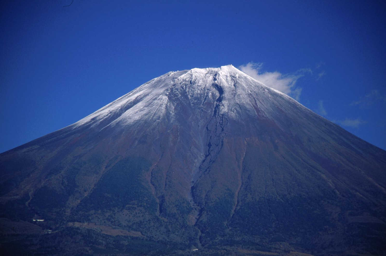 Osawakuzure of Mount Fuji seen from Lake Tanuki, in Fujinomiya, Shizuoka Prefecture, Japan.